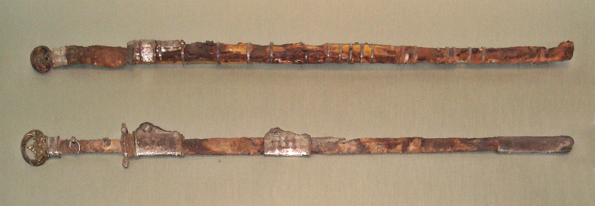 Two zhibeidao, ca. 600, said to have been found in an imperial tomb at Mang Shan, north of Luoyang, Henan Province.